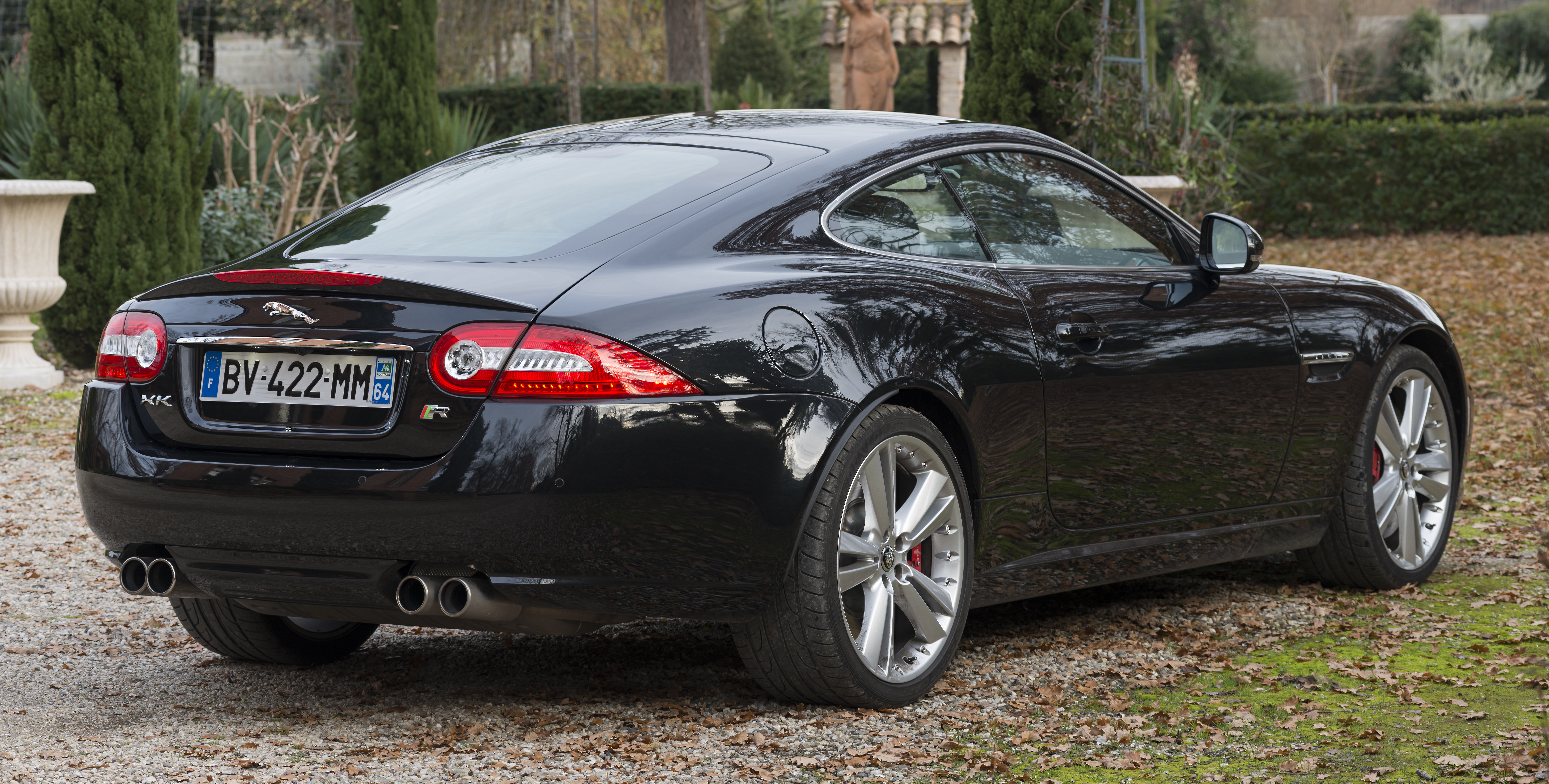 Jaguar XKR (X150) Coupé Model 2014. 3/4 rear view.